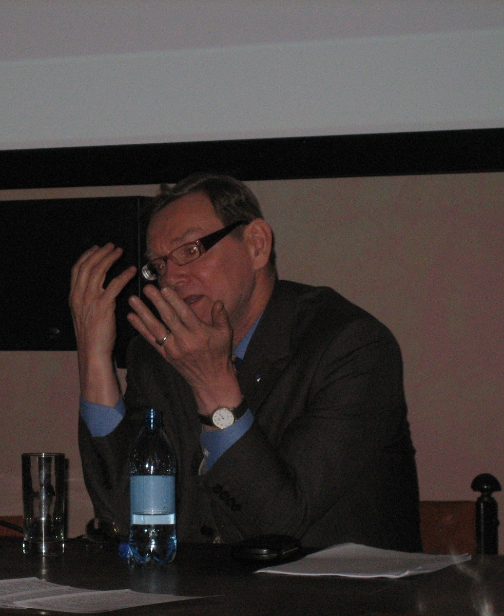 Tarmo Kulmar (born 1950) is Estonian theologian.